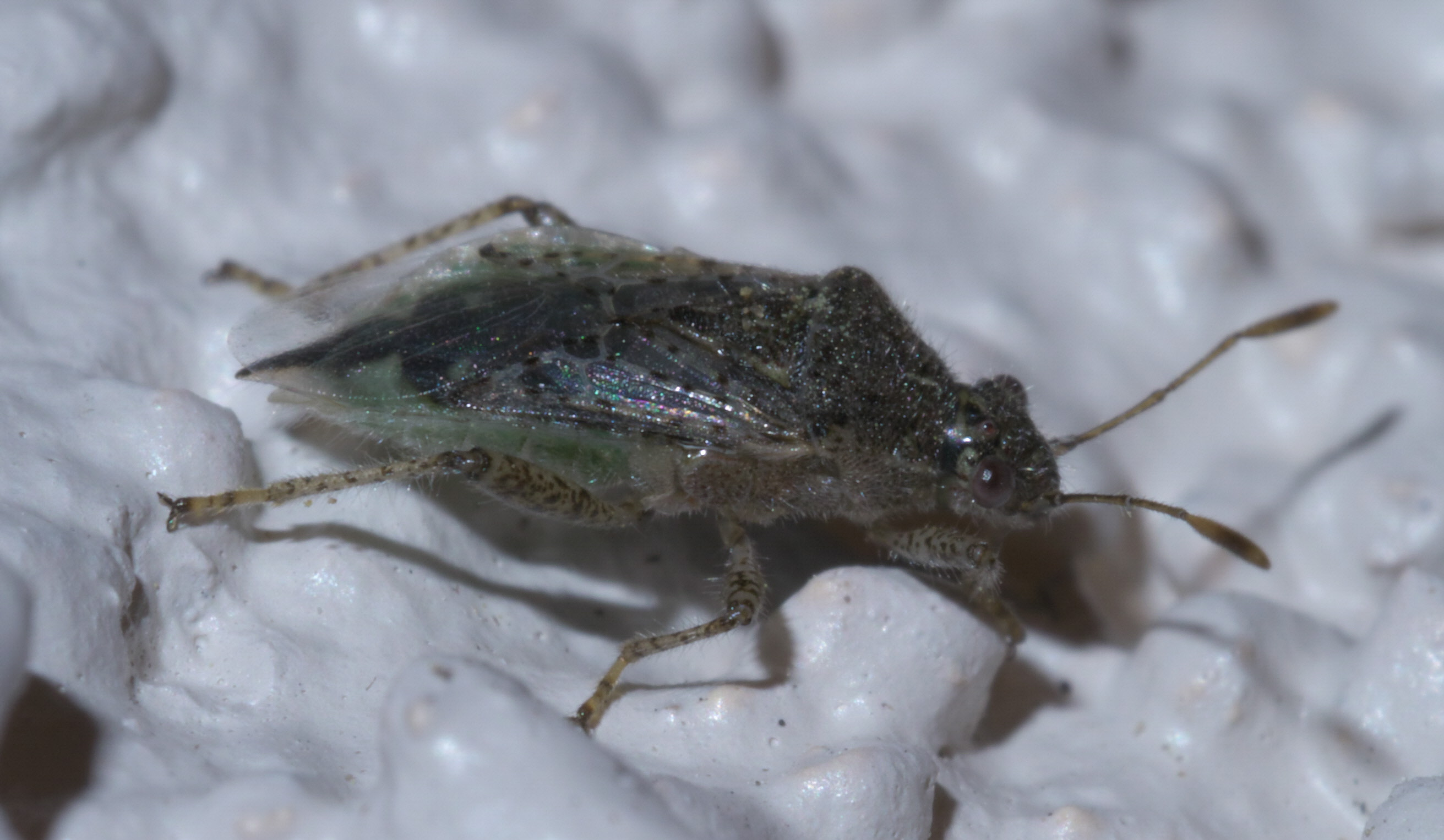 Arhyssus, Family: Scentless Plant Bugs, Size: 5.7 mm, ID Confidence: 98